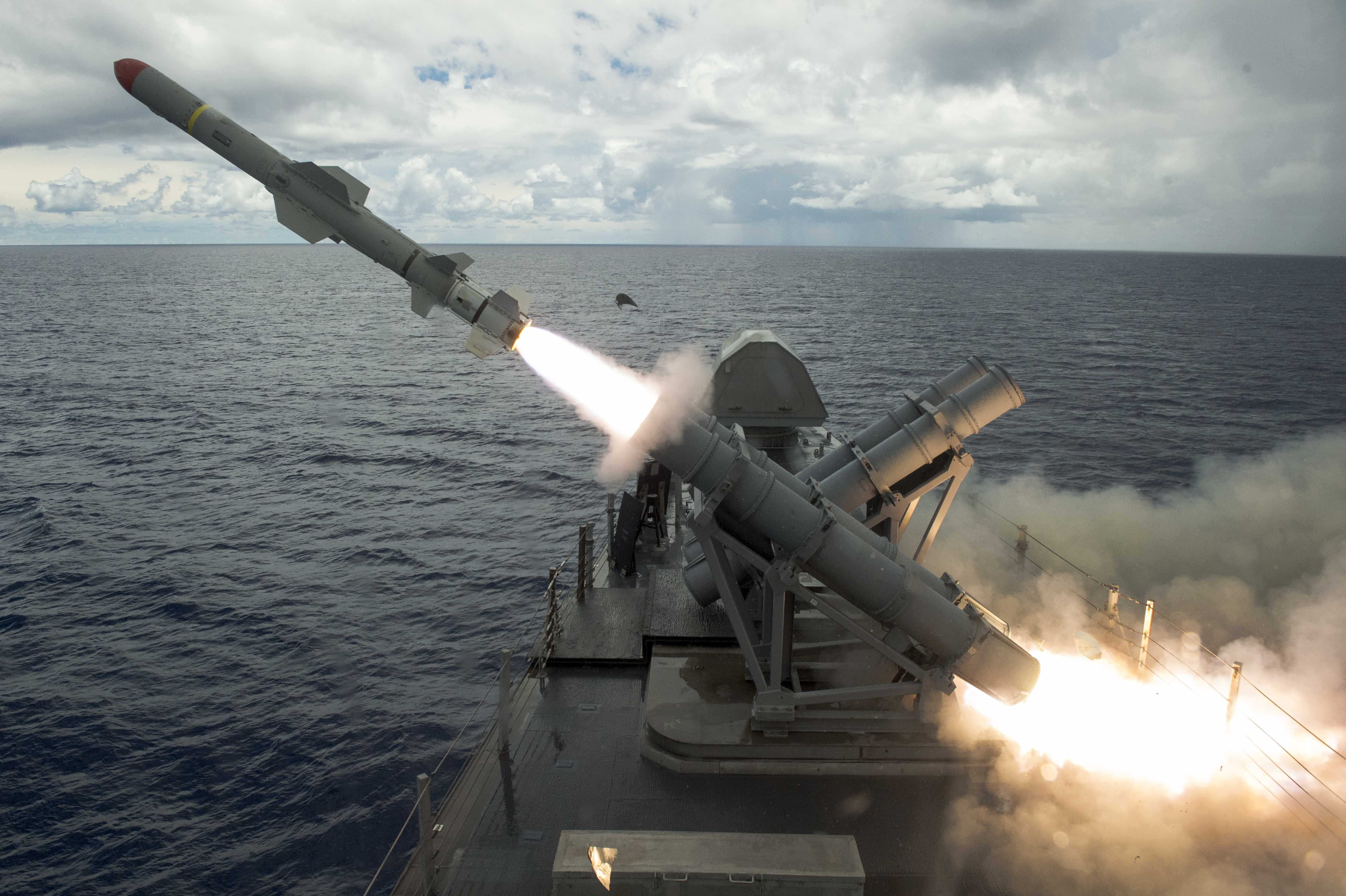 PHILIPPINE SEA (Aug. 22, 2017) A harpoon missile launches from the missile deck of the littoral combat ship USS Coronado (LCS 4) in the Philippine Sea. Coronado is on a rotational deployment in the U.S. 7th Fleet area of operations, patrolling the region's littorals and working hull-to-hull with partner navies to provide the U.S. 7th Fleet with the flexible capabilities it needs now and in the future. (U.S. Navy photo by Mass Communication Specialist 2nd Class Kaleb R. Staples/Released)170822-N-GR361-082 Join the conversation: navylive.dodlive.mil